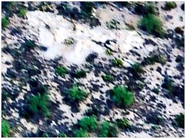 Ninety Foot Triangle of the Stone Cross